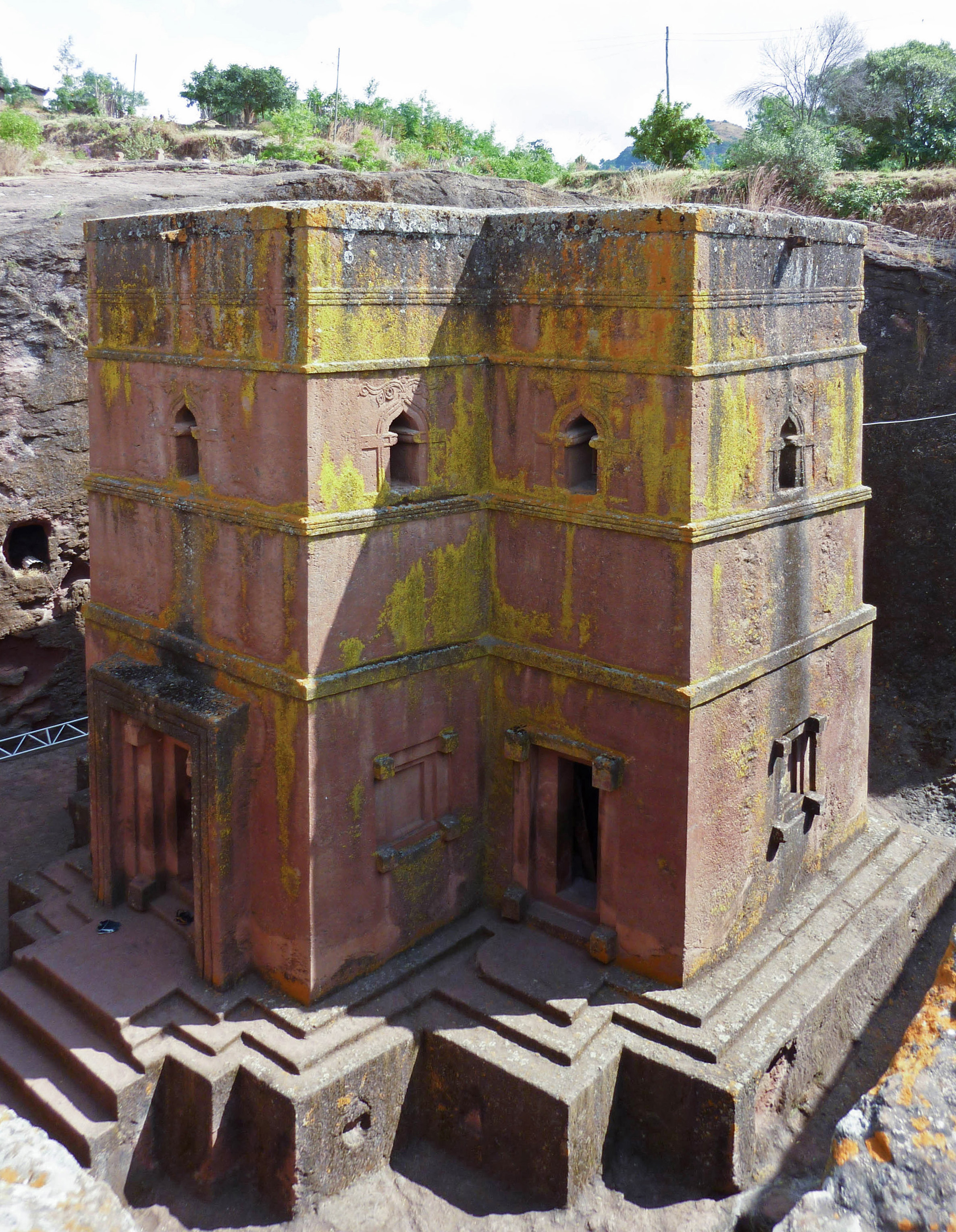 Bete Giyorgis (Church of St. George), Lalibela, Ethiopia